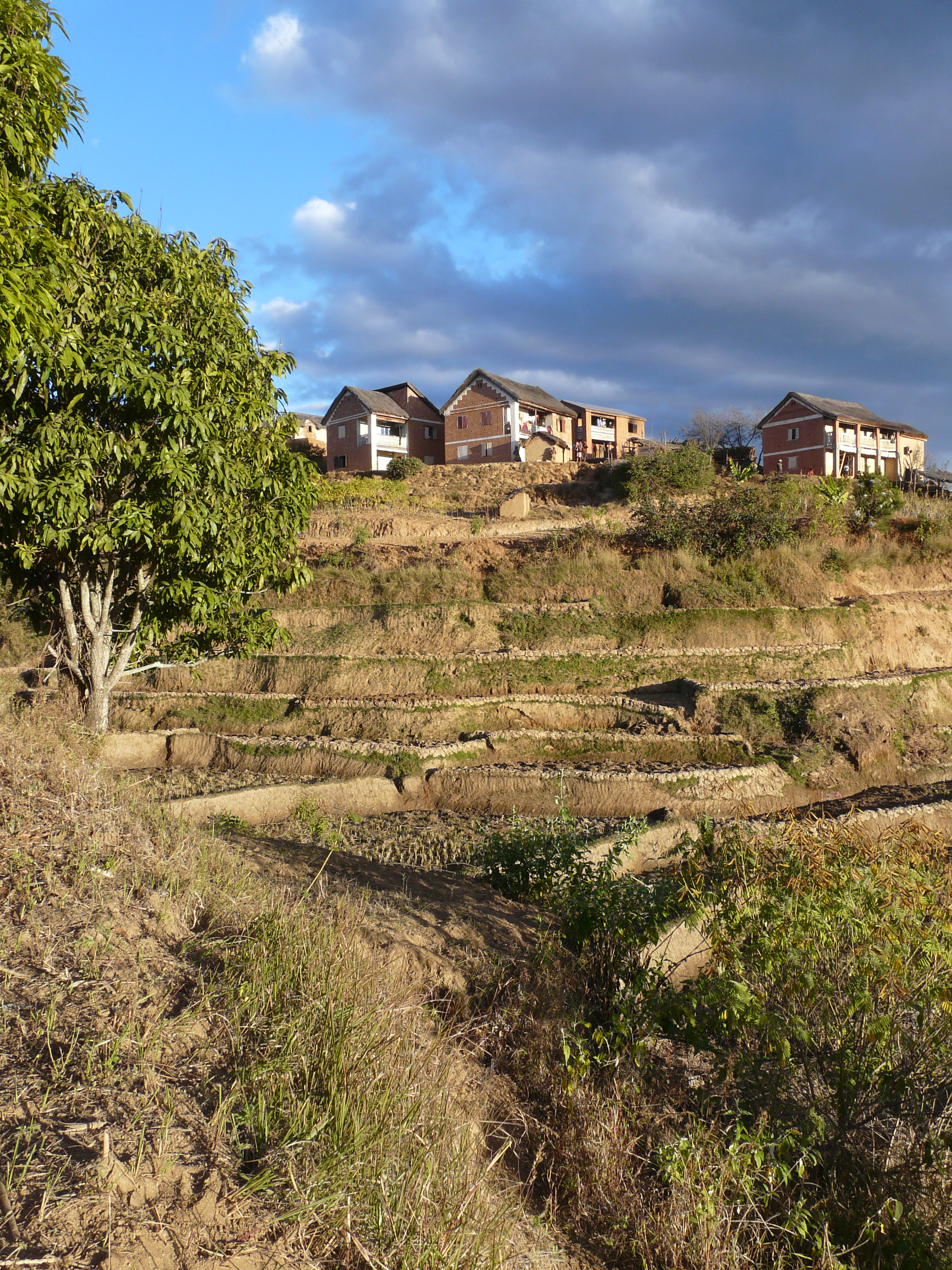 Betsileo village